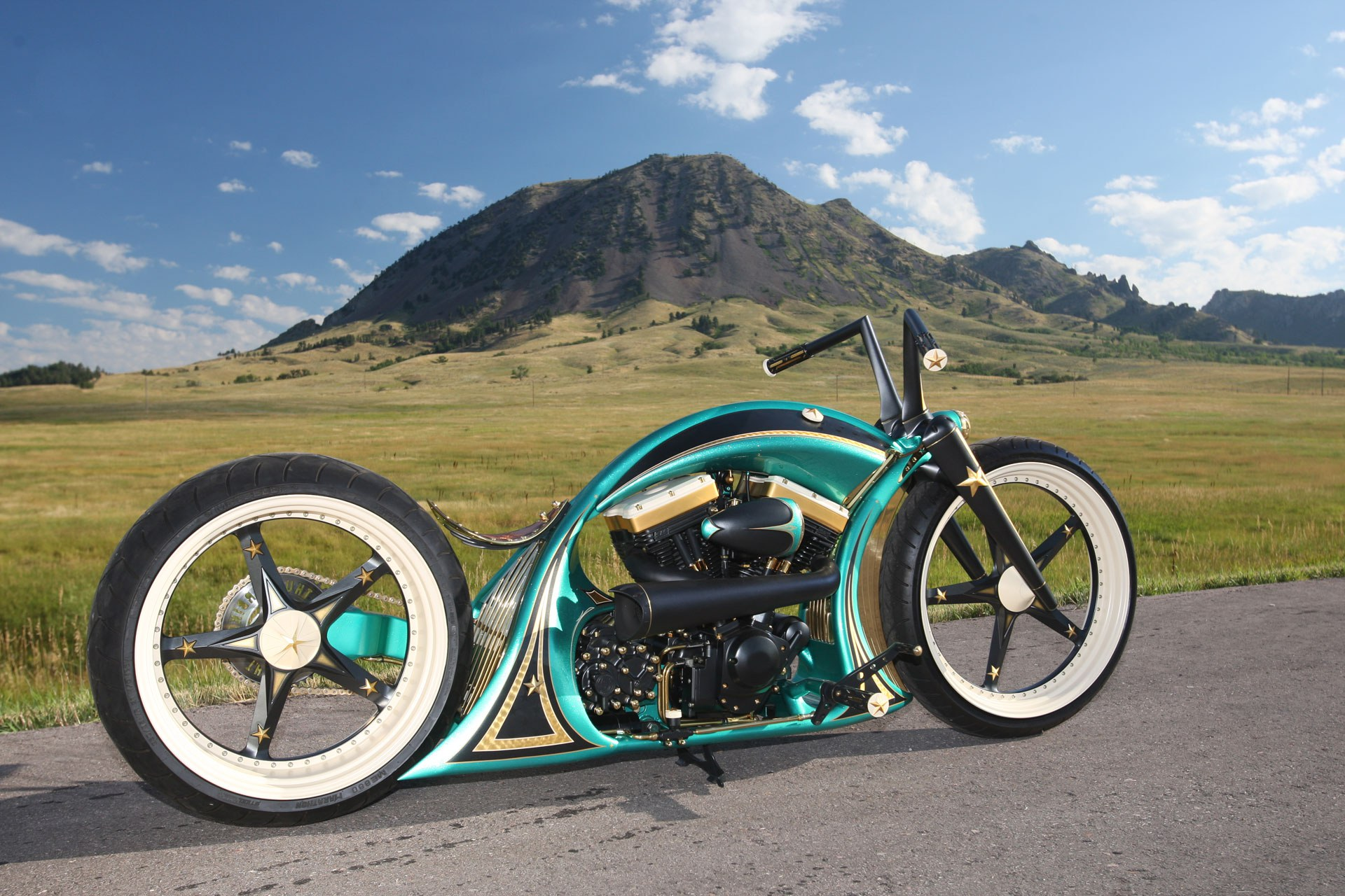 Thunderbike Open Mind - AMD World Championship 2008